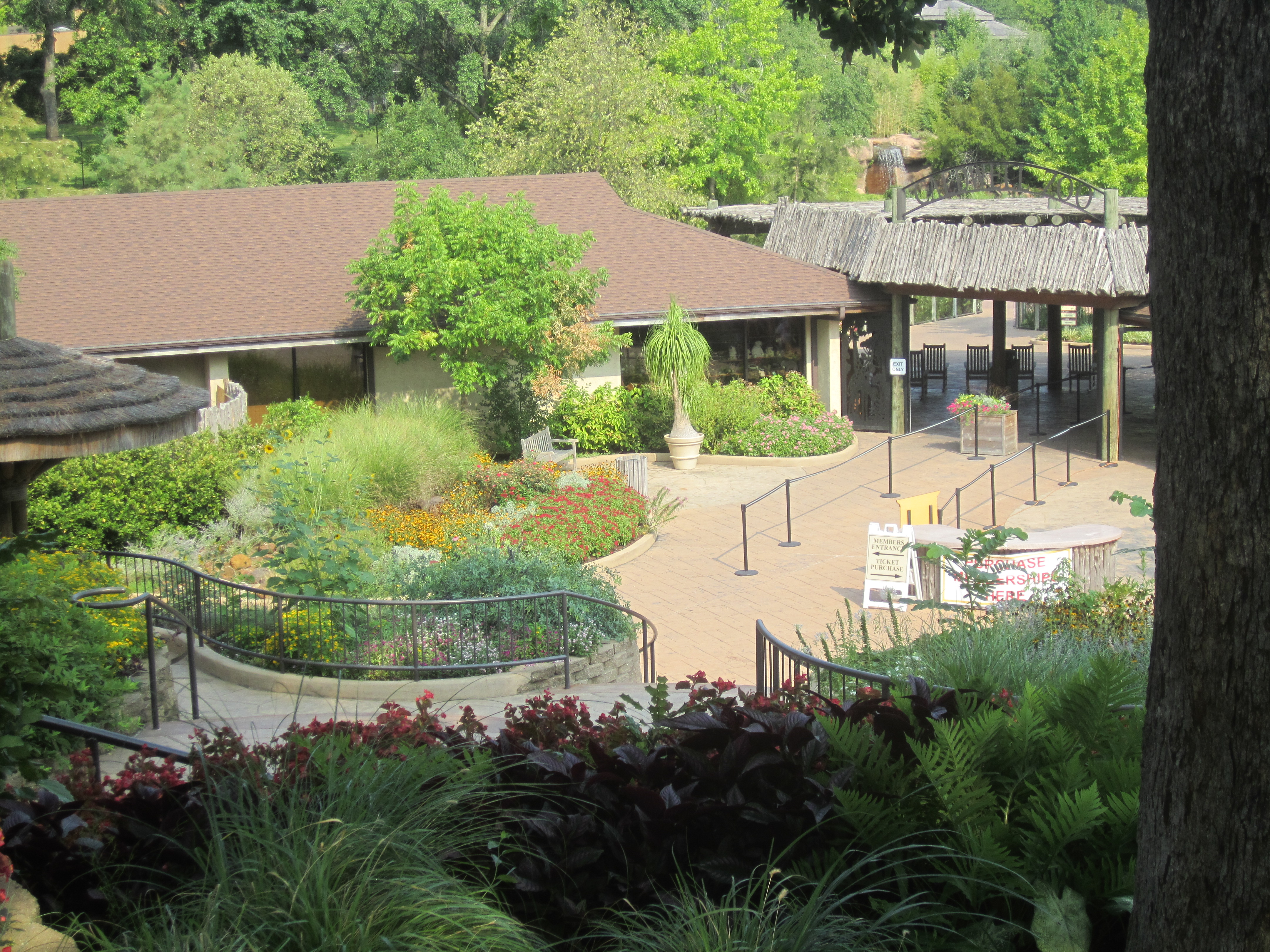 I took photo with Canon camera at Tyler, TX.